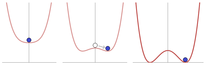 Explanatory diagram showing how symmetry breaking works. At a high enough energy level, a ball settled in the center (lowest point), and the result has symmetry. At lower energy levels, the center becomes unstable, the ball rolls to a lower point - but in doing so, it settles on an (arbitrary) position and the result is that symmetry is broken - the resulting position is not symmetrical.